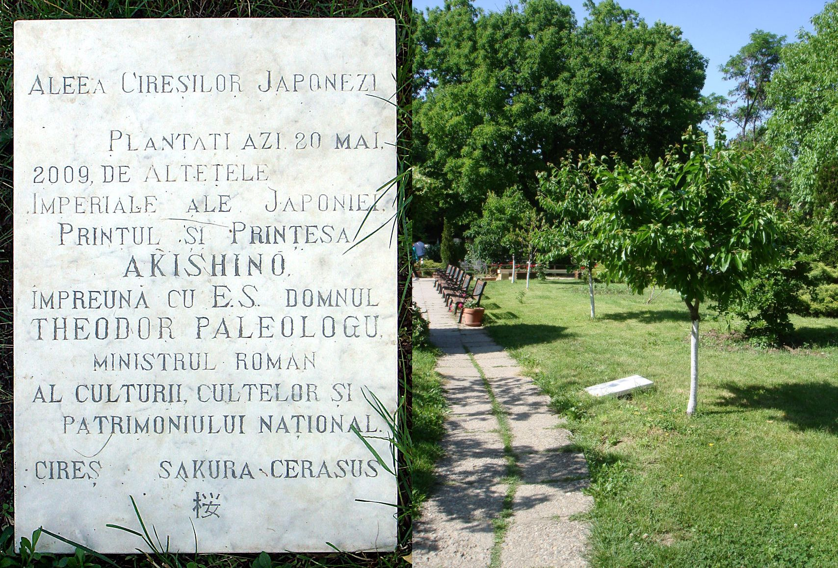 Alley of Japanese cherry trees in Herăstrău Park, Bucharest